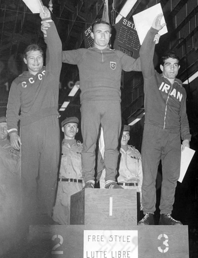 Guram Sagaradze, Mahmut Atalay, Hossein Tahami at the 1966 World Championships (78 kg freestyle wrestling)